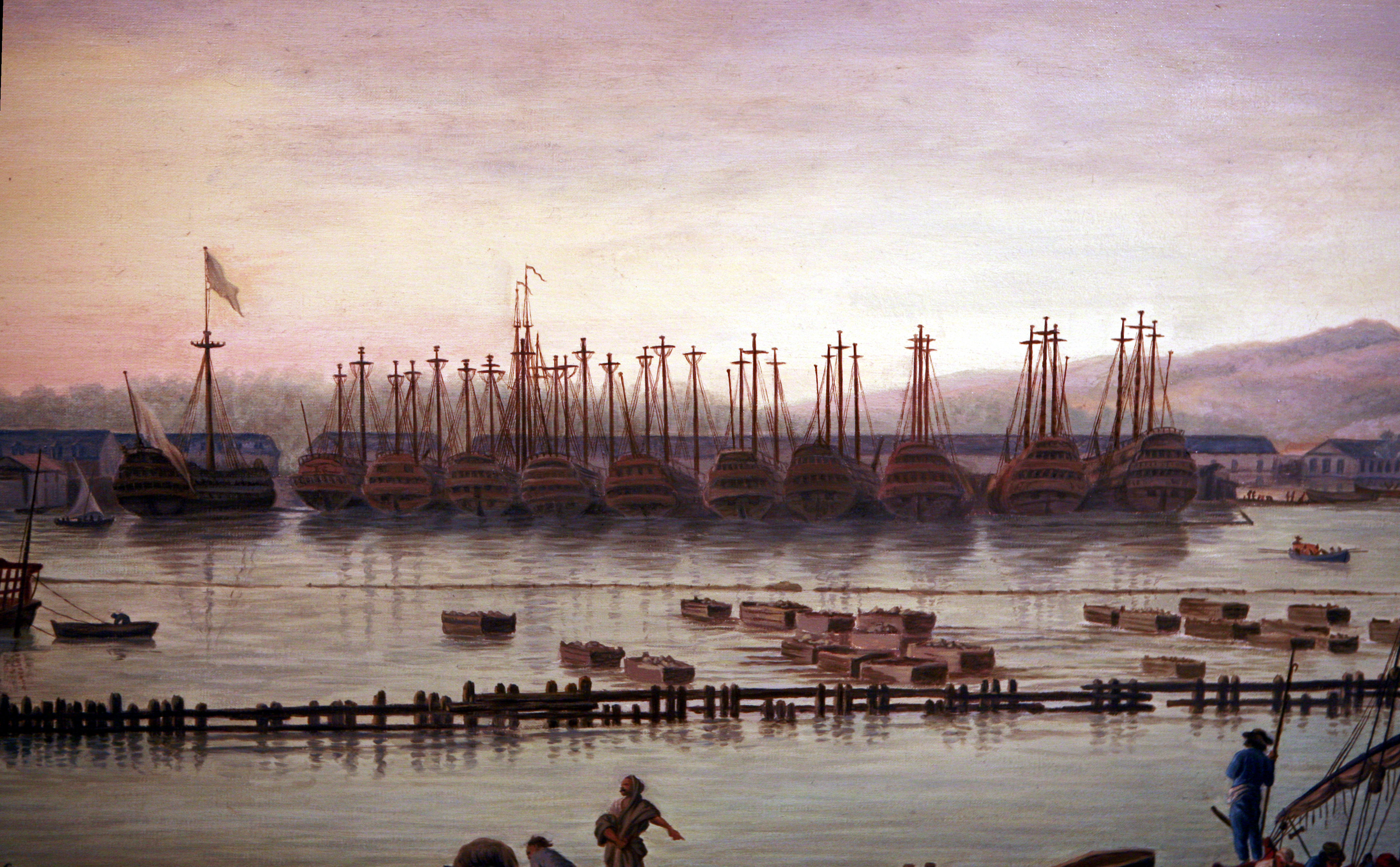 Series of paintings of the harbours of France : Toulon